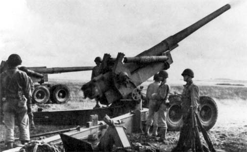 Description: 155mm Long Tom artillery units train in England during WW II. Unless otherwise noted, these photos and posters are drawn from the immense collections of the U.S. Government in the National Archives, the archives of the military services, and compilations of these photos maintained by universities, libraries and foundations. Such photos and posters are in the public domain and may be used for any lawful purpose. Please credit (or as your helpful source if you make use of them. .